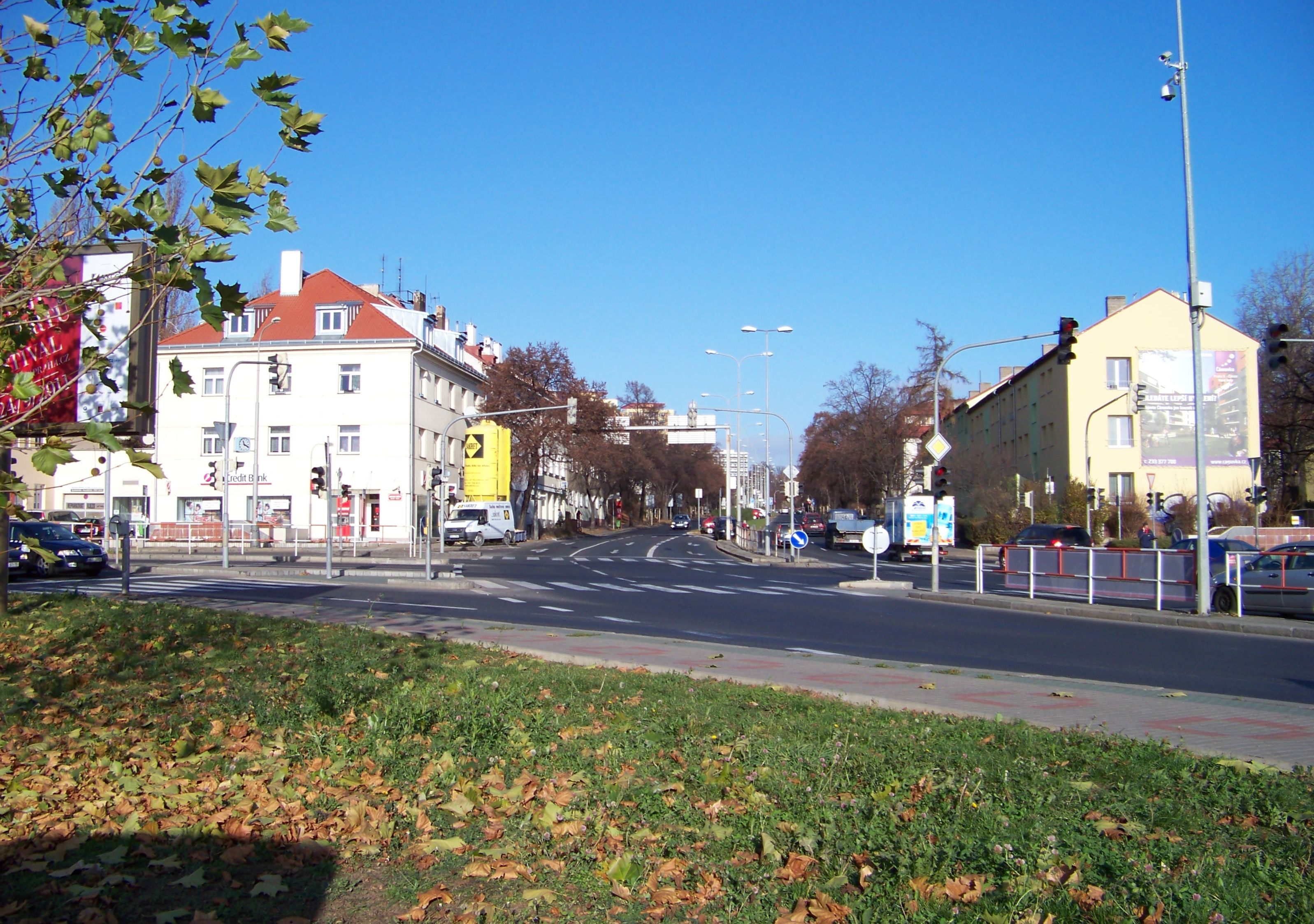 Prague-Kobylisy, the Czech Republic. Kobyliské Square, Horňátecká street. - OpenStreetMap(Info)